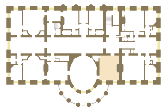 White House second floor showing location of the Treaty Room. 23.02.07, Jim Hood.